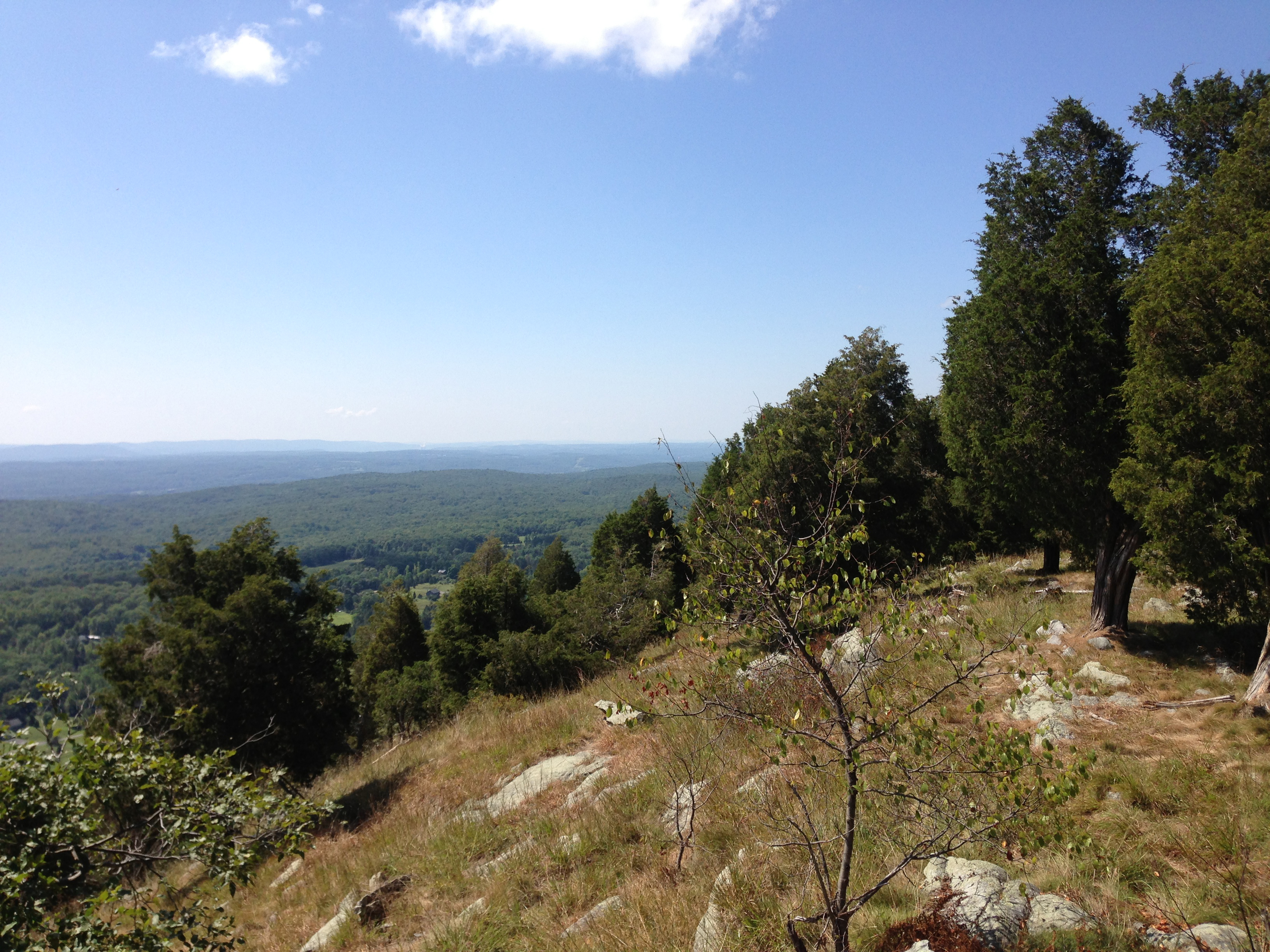 View south-southwest from the Appalachian Trail about 10.2 miles northeast of the Delaware Water Gap in the Delaware Water Gap National Recreation Area, New Jersey